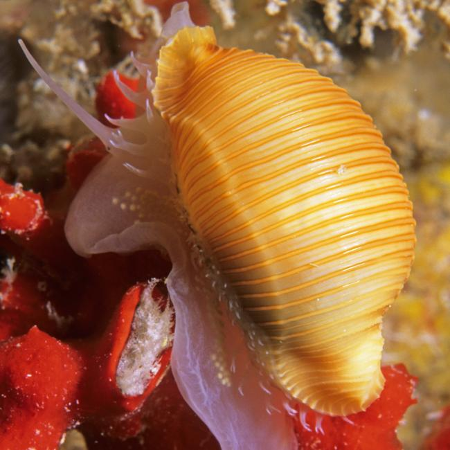 photo of Ipsa childreni